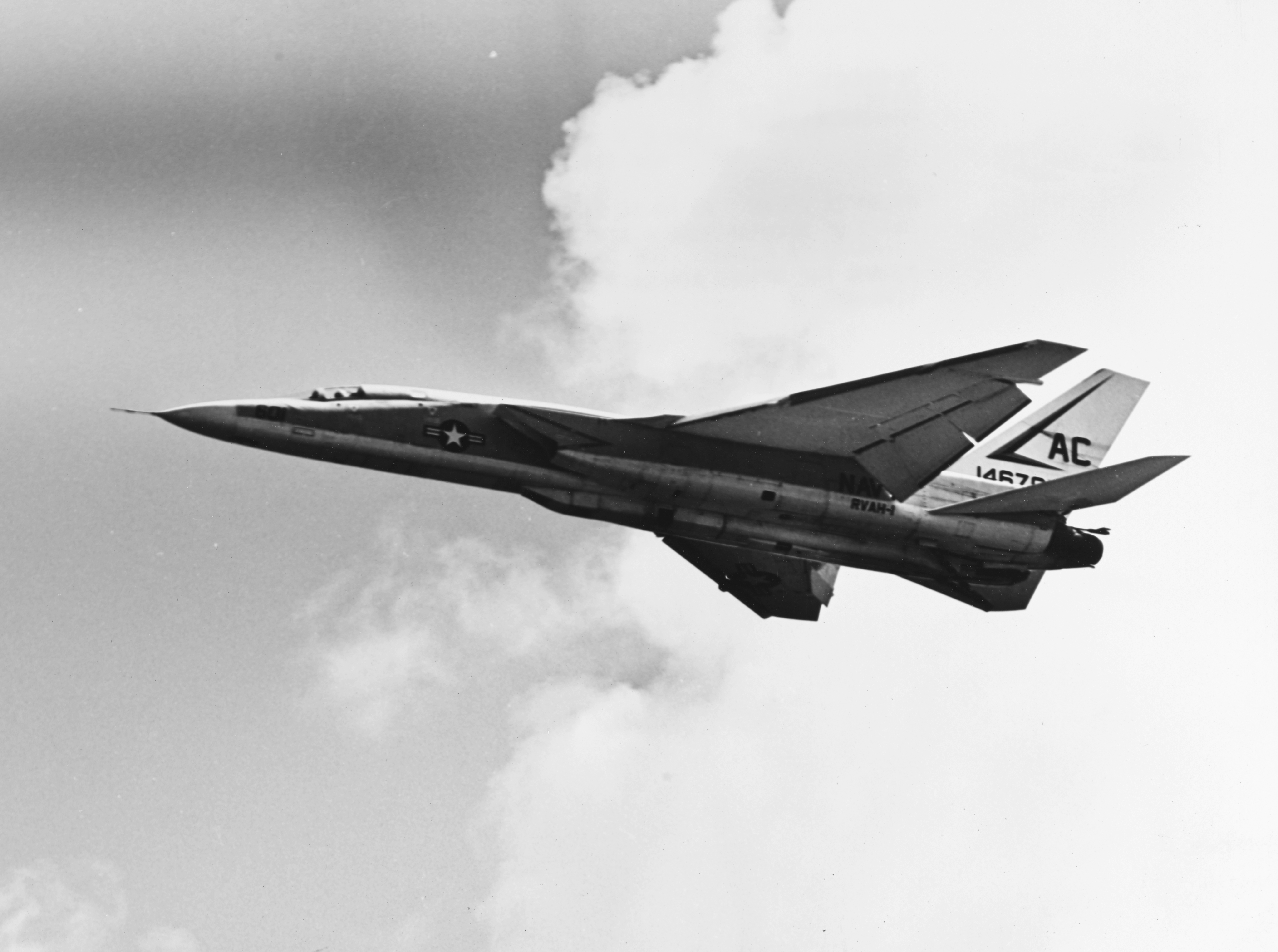 A U.S. Navy North American RA-5C Vigilante from Reconnaissance Heavy Attack Squadron 1 (RVAH-1) "Smokin' Tigers" in flight. RVAH-1 was assigned to Attack Carrier Air Wing 3 (CVW-3) aboard the aircraft carrier USS Saratoga (CVA-60) during operations in the Western Atlantic in March and April 1969.